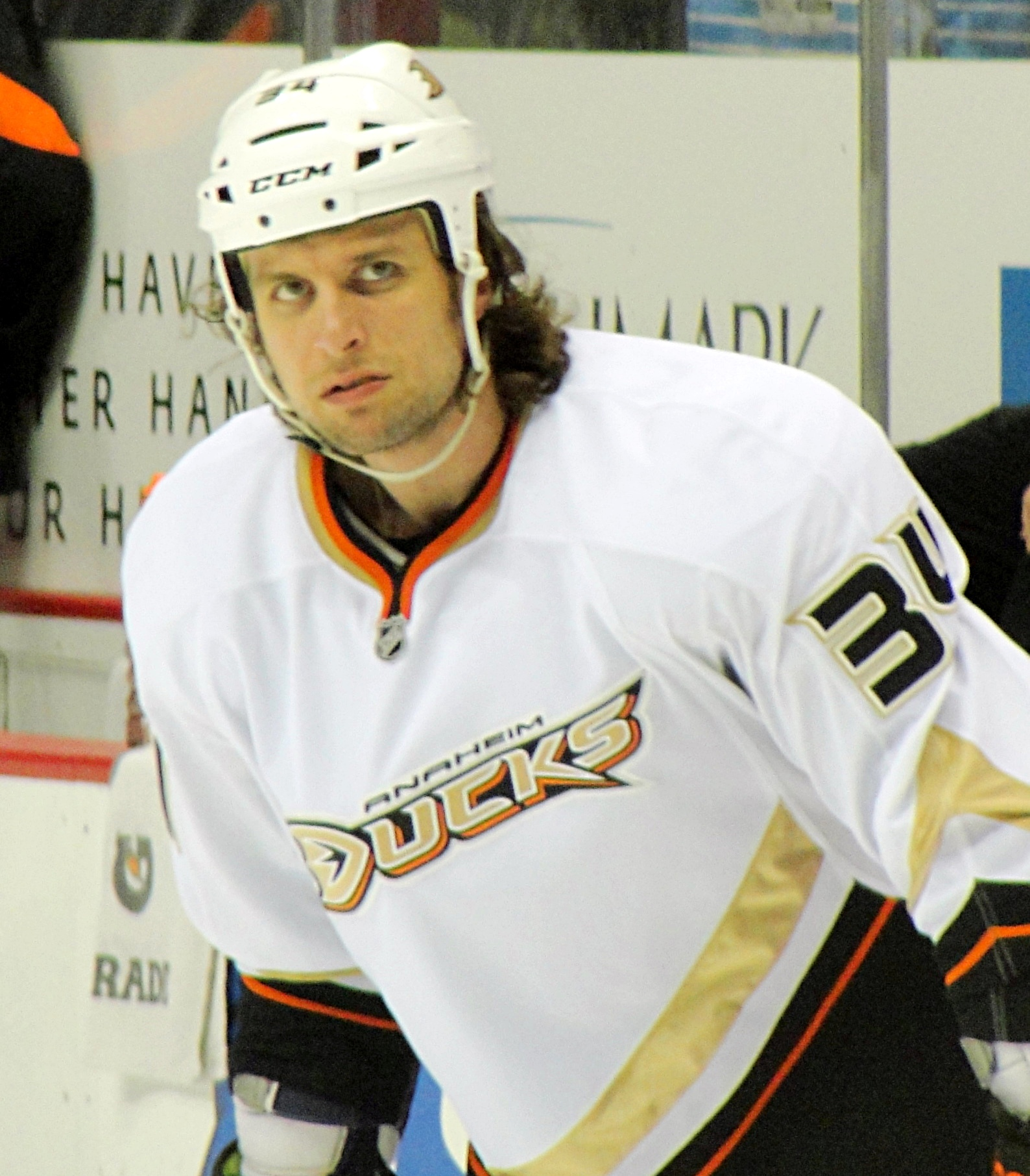 Nate Guenin of the Anaheim Ducks skates against the Pittsburgh Penguins, February 15, 2012 at Consol Energy Center in Pittsburgh, PA.